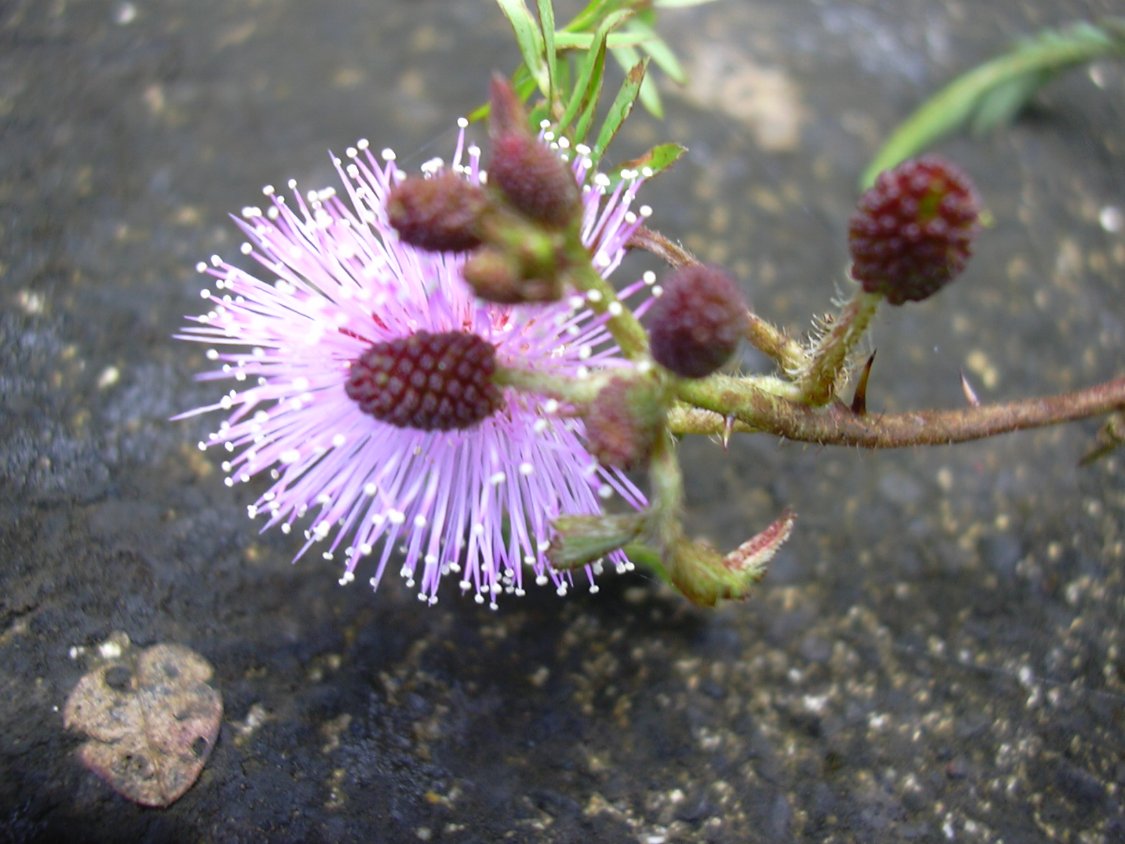 Mimosa pudica (flowers). Location: Maui, Hana Hwy